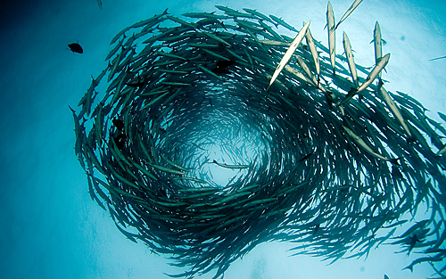 A "tornado" of schooling barracudas at Sanganeb Reef, Sudan.